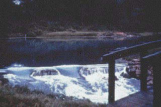 Mammoth Spring, Arkansas, USA, from USGS